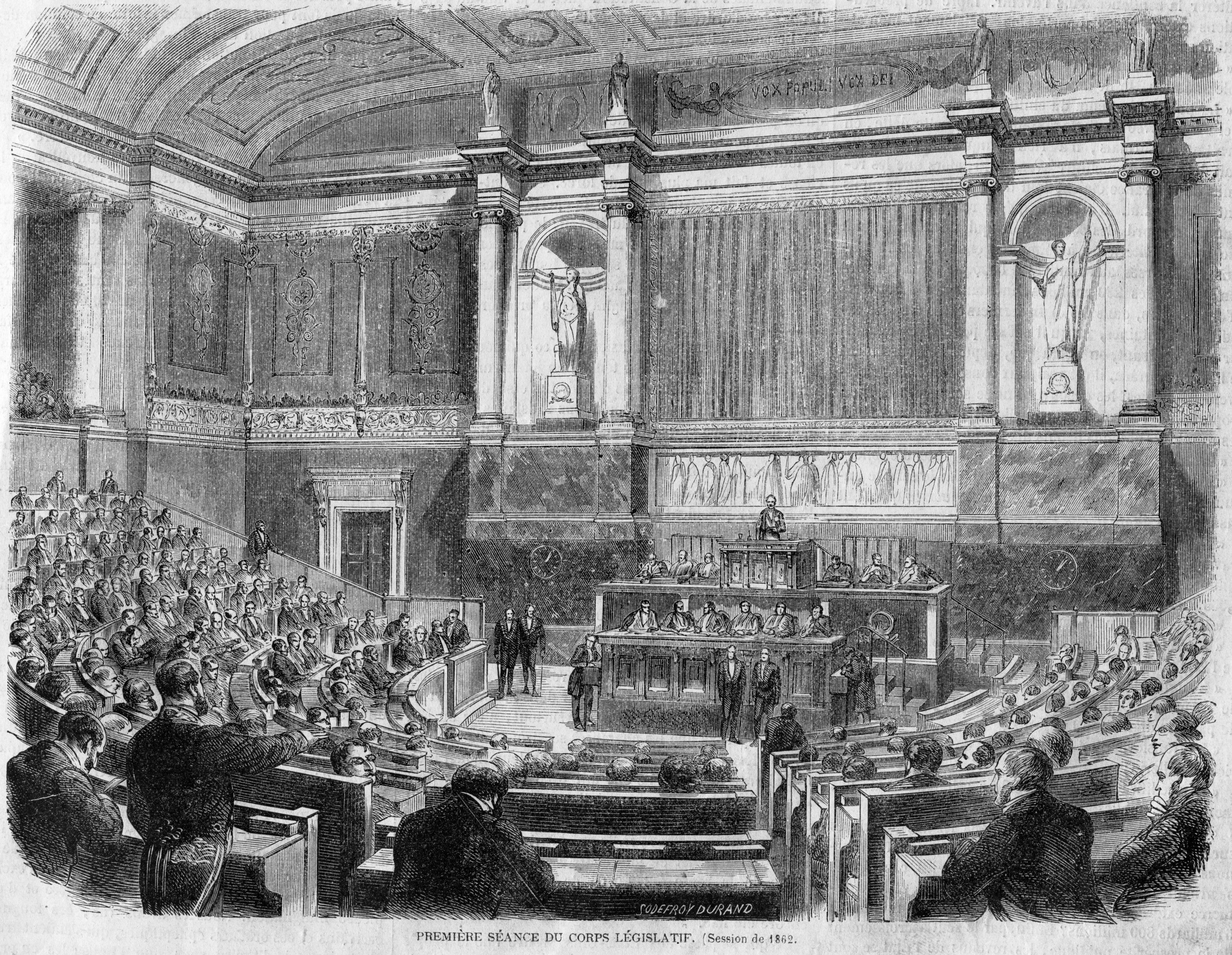 L'Illustration 1862 gravure Première séance du Corps législatif, session de 1862